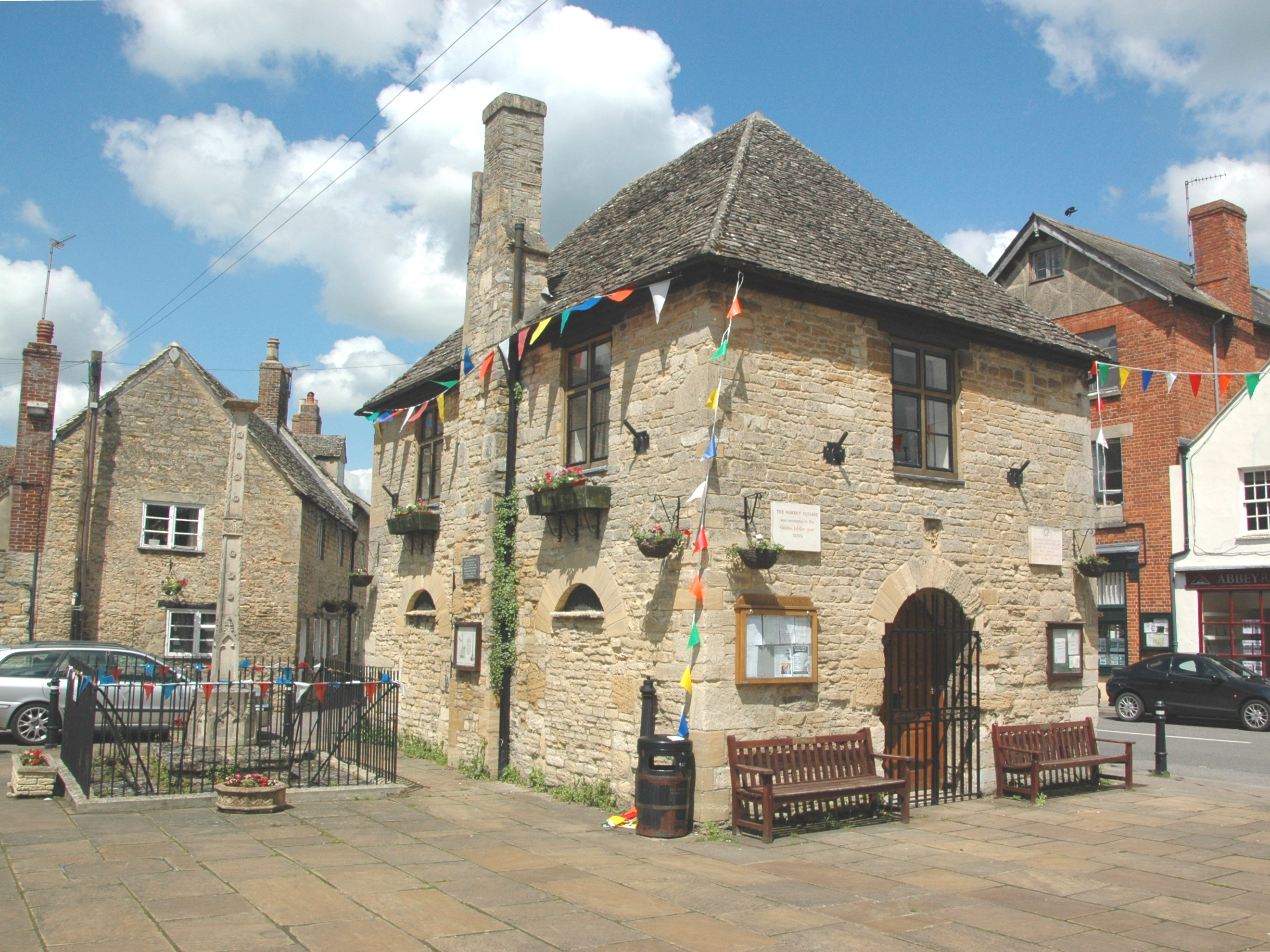 Eynsham, Oxfordshire: the Bartholomew Room and part of The Square.